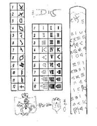 The Gediminas Sceptre, a medieval Lithuanian calendar. Showing 12 months and 9 days in a week